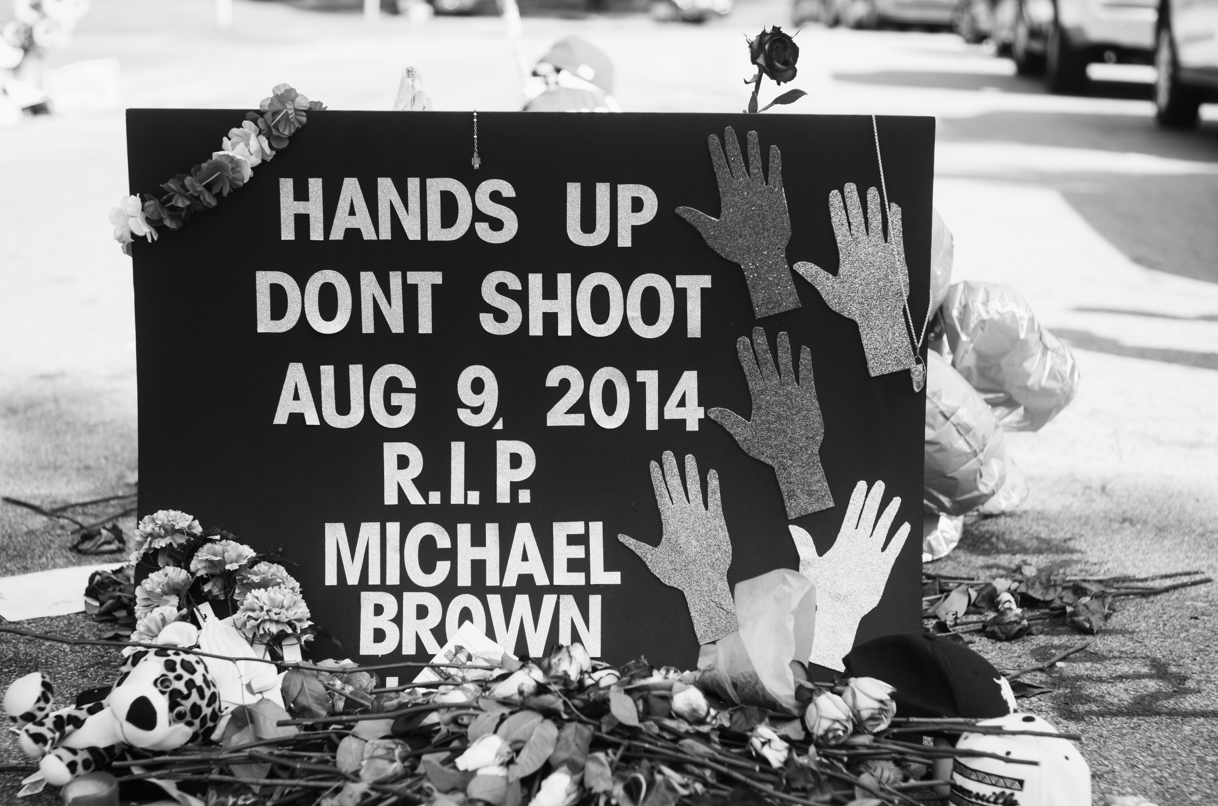 Black and white photo of a memorial placed during protests.